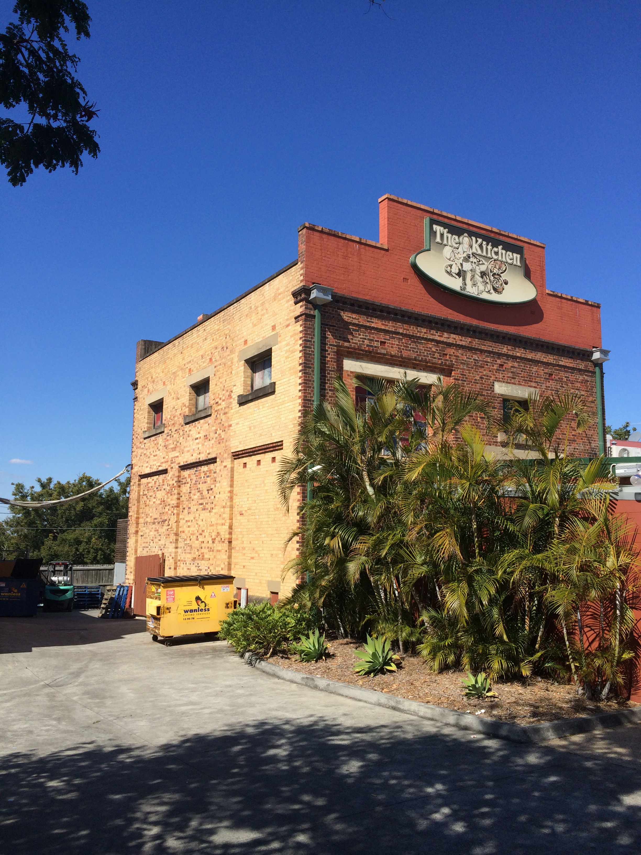 Photo of Brisbane Tramways Substation No. 10 Annerley from Annerley Road. Looking at the side of the building, the modern extension can be seen, with one third of the building modern yellow brick rather than the original reddish-brown "Burnt Sienna" brick.